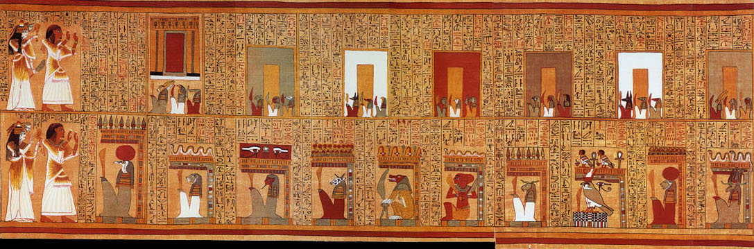 Book of the Dead spells 144 and 145 or 146 from the Papyrus of Ani